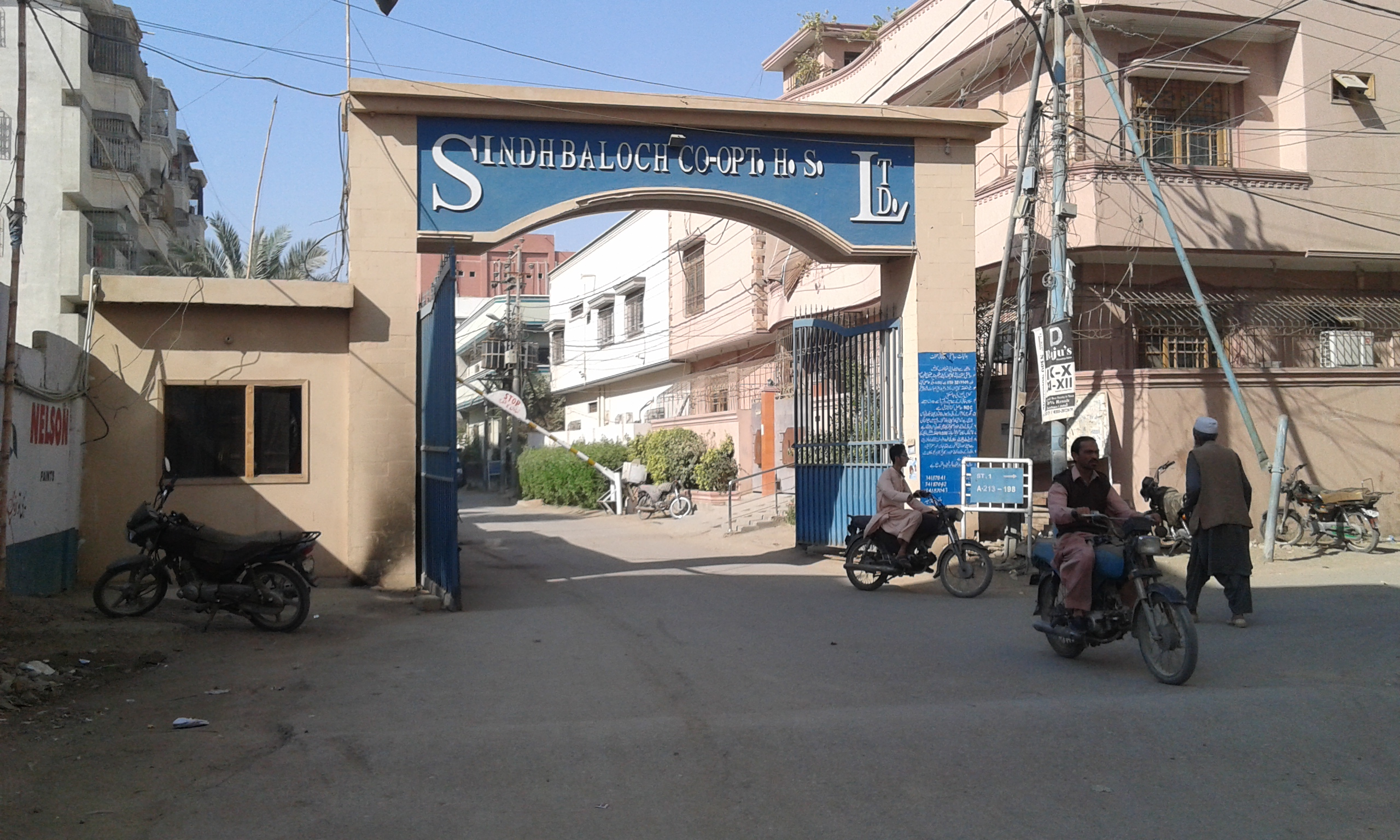 Main gate